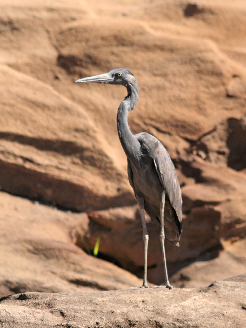 Humblot's Heron in Tsiribihina, Toliara, Madagascar.